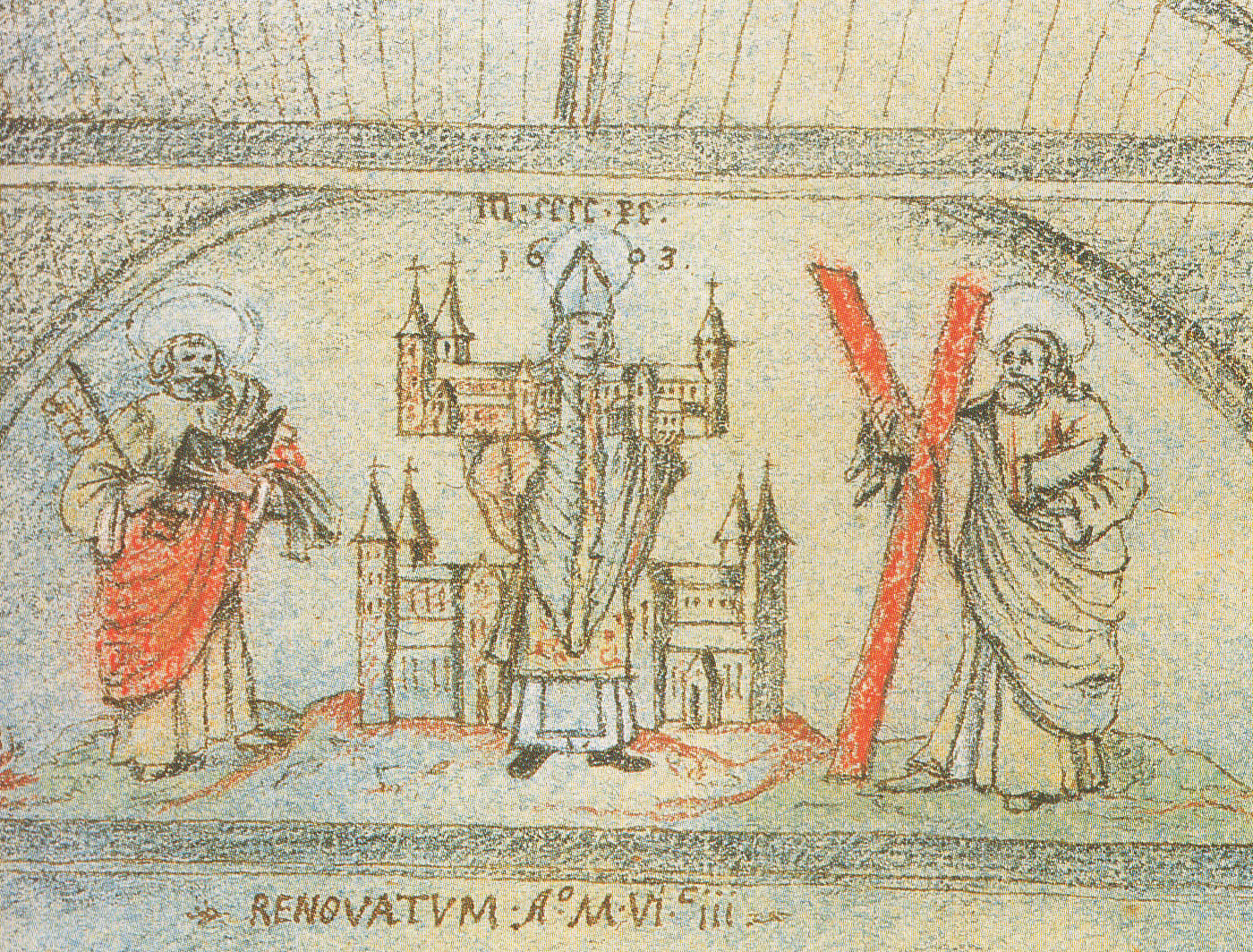 Bishop Bernold (- died 1054) depicted in an old wall painting in the "Pieterskerk" in Utrecht (Netherlands). He is depicted with four churches he founded around him (Utrecht: Church of Saint John (Janskerk), Saint Peter (Pieterskerk) and Saint Paul abbey (Paulusabdij), and in Deventer St. Lebuin's Church). The drawing of this lost wall painting was made by Pieter Saenredam in 1636.